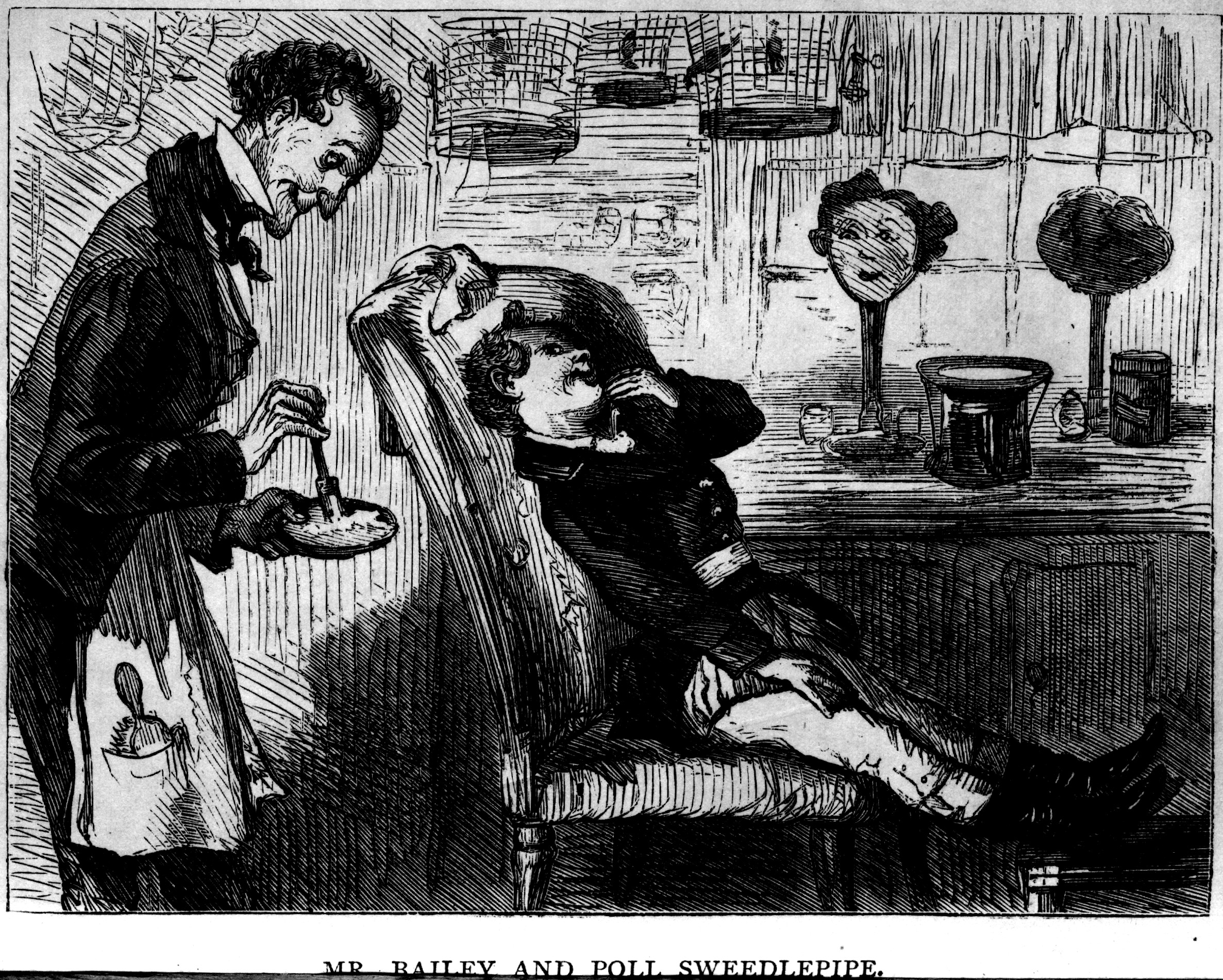 Illustration from 1867 U.S. edition of Martin Chuzzlewit. Page 266. "Mr. Bailey and Poll Sweedlepipe"